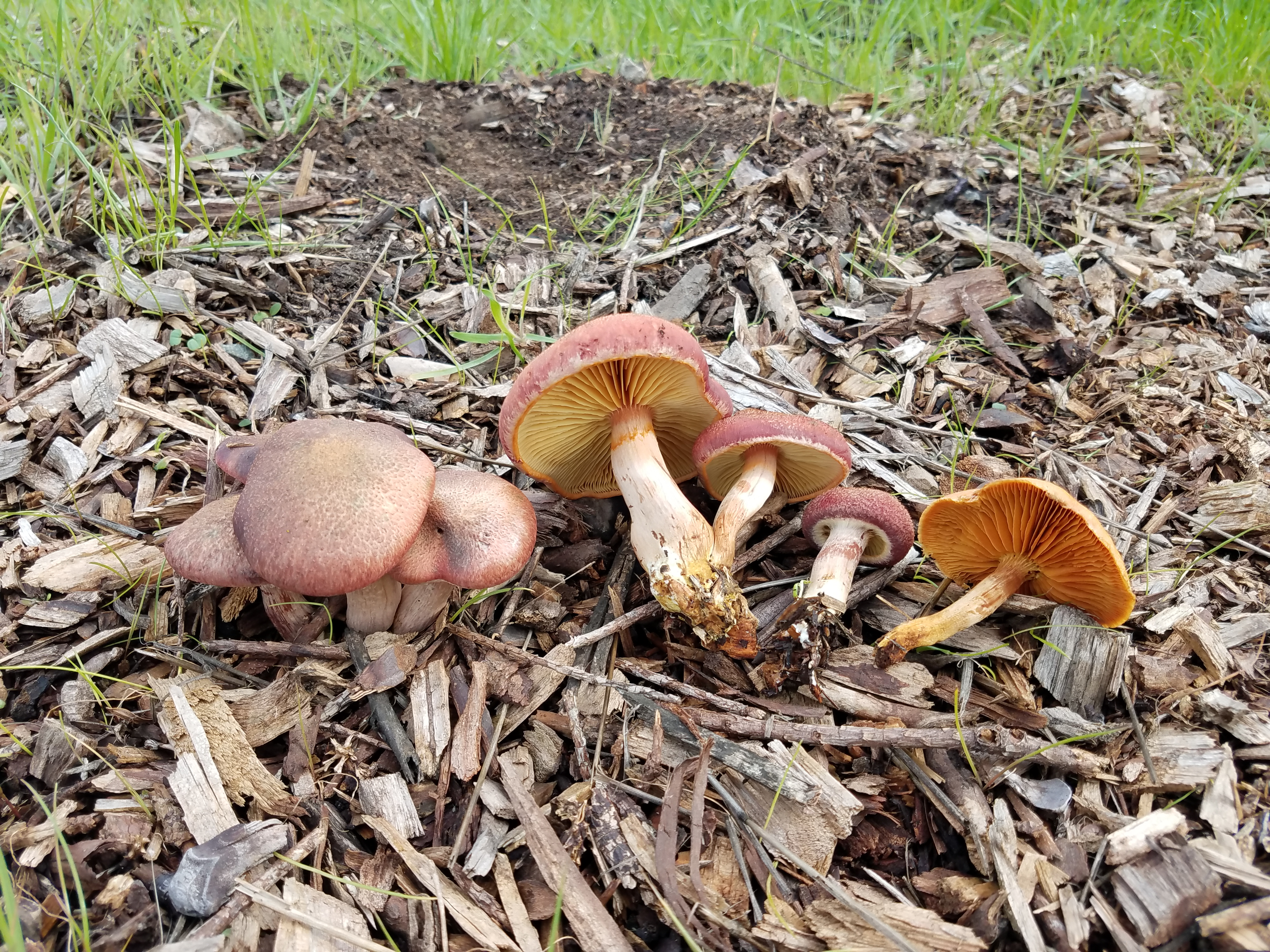 Gymnopilus thiersii from Oakland, California, USA. ID verified by DNA sequencing.